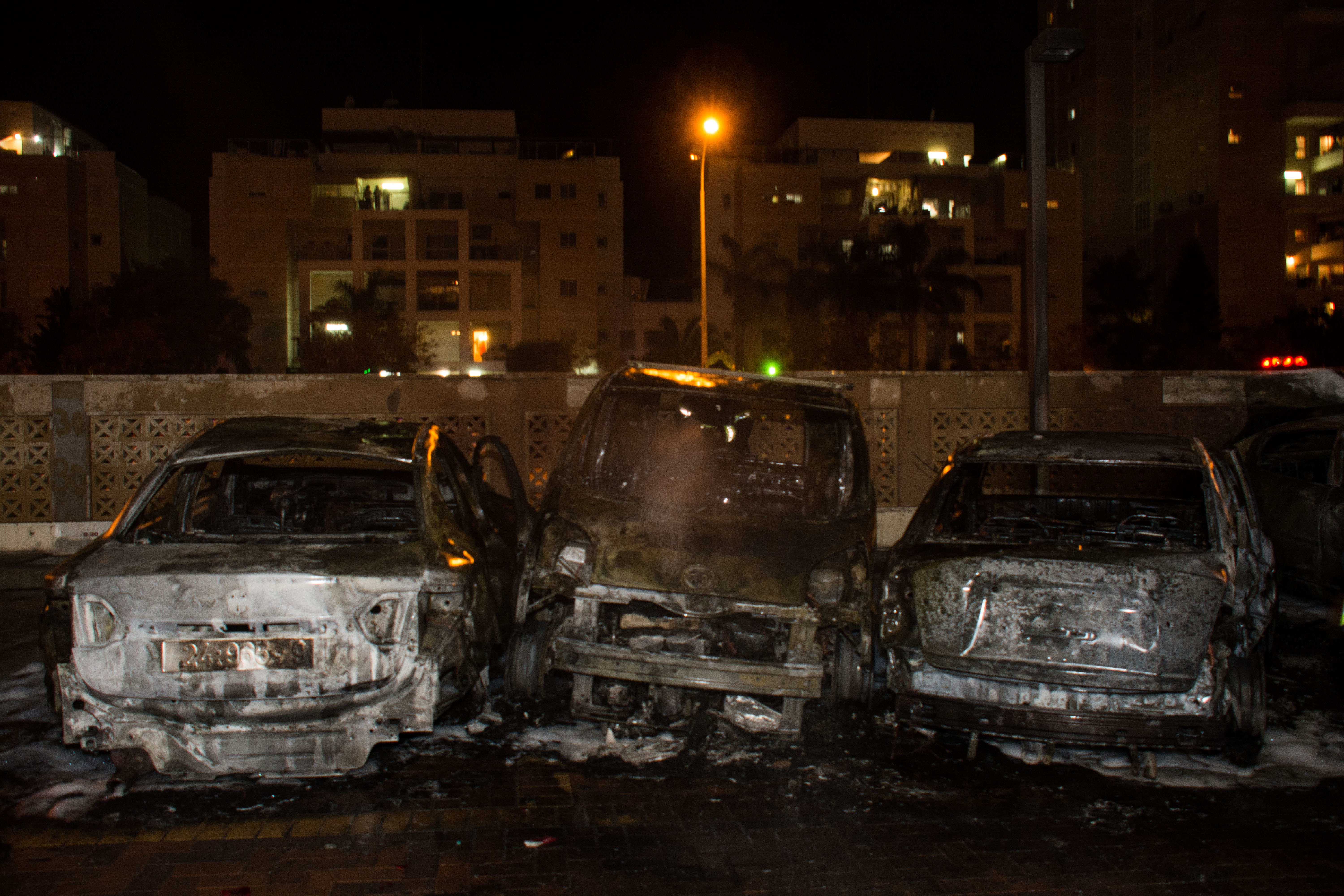 Cars destroyed in Ashdod caused by a Gaza rocket